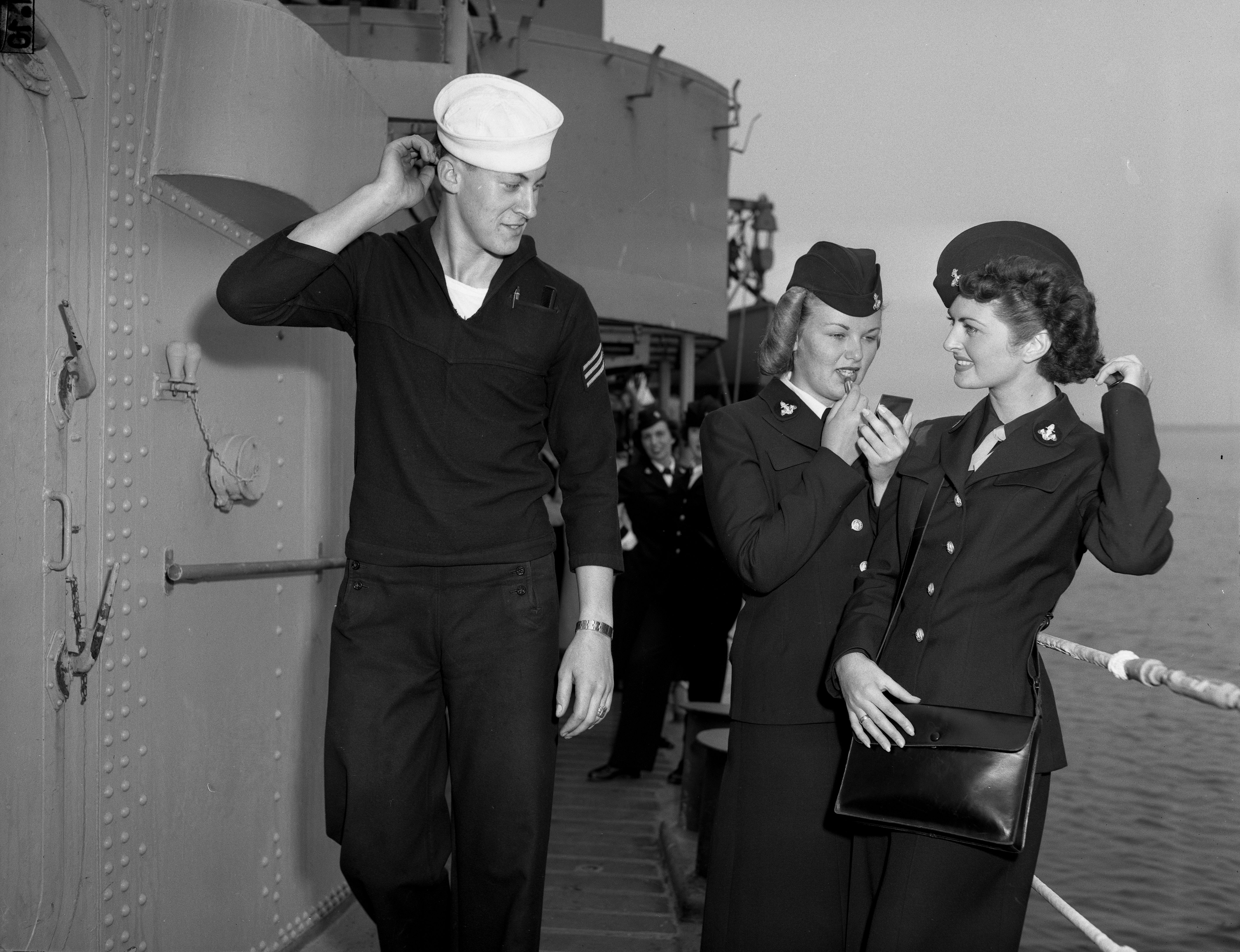 A U.S. Navy sailor and two WAVES (Women Accepted for Volunteer Emergency Service) on board the Fletcher-class destroyer USS Uhlmann (DD-687) at Terminal Island, California (USA), in 1950. Original description: "TO LOOK THEIR BEST--Fireman 1st Class Samuel E. Adolt, 19, sees something new on destroyer: Marion Koopman, left and Margaret Williams, prettying up."